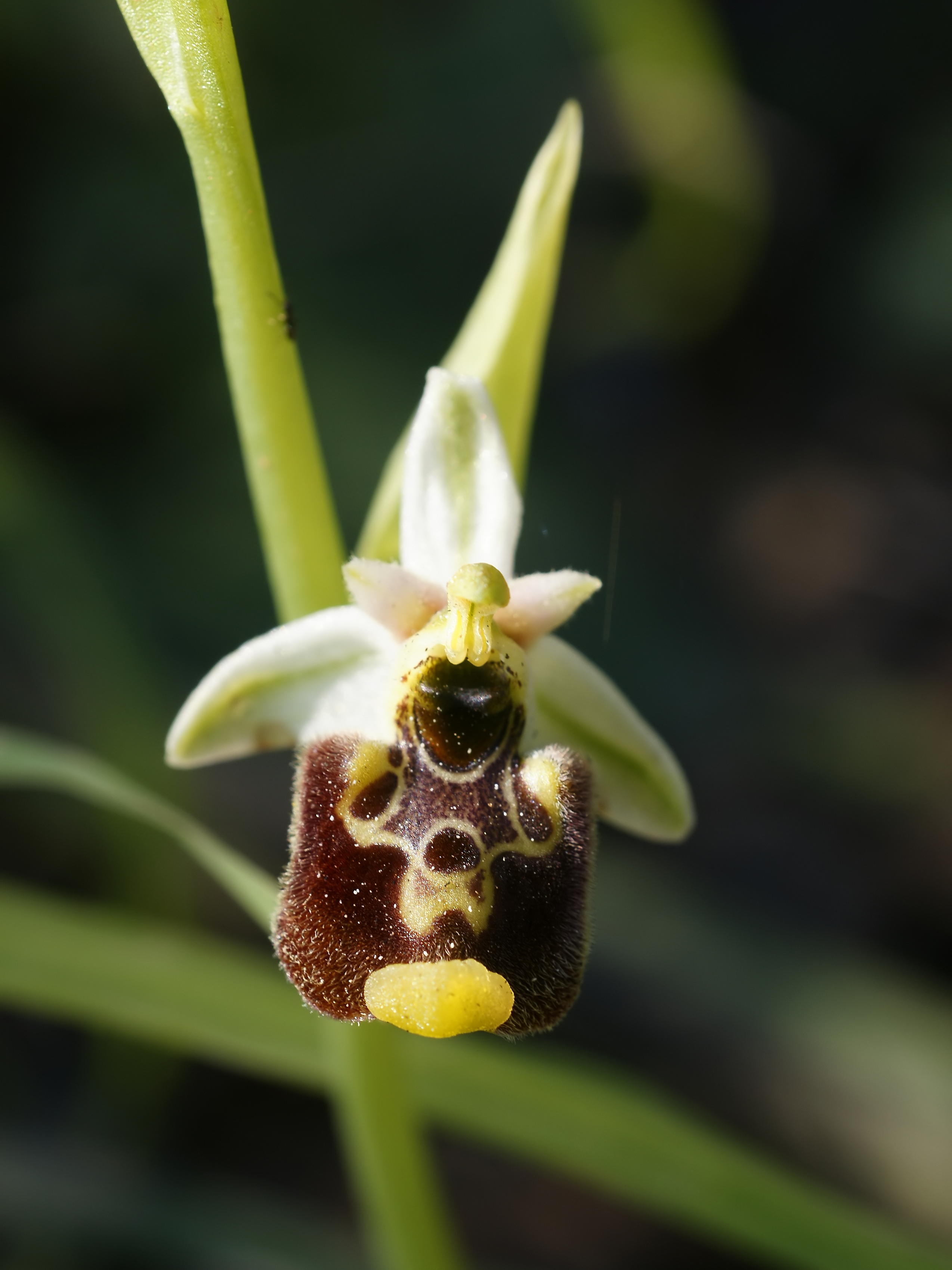 Endemic Corso-Sardinian Ophrys. Approximate co-ordinates: plant located within 5 km from Zinnigas, Sardinia, Italy.